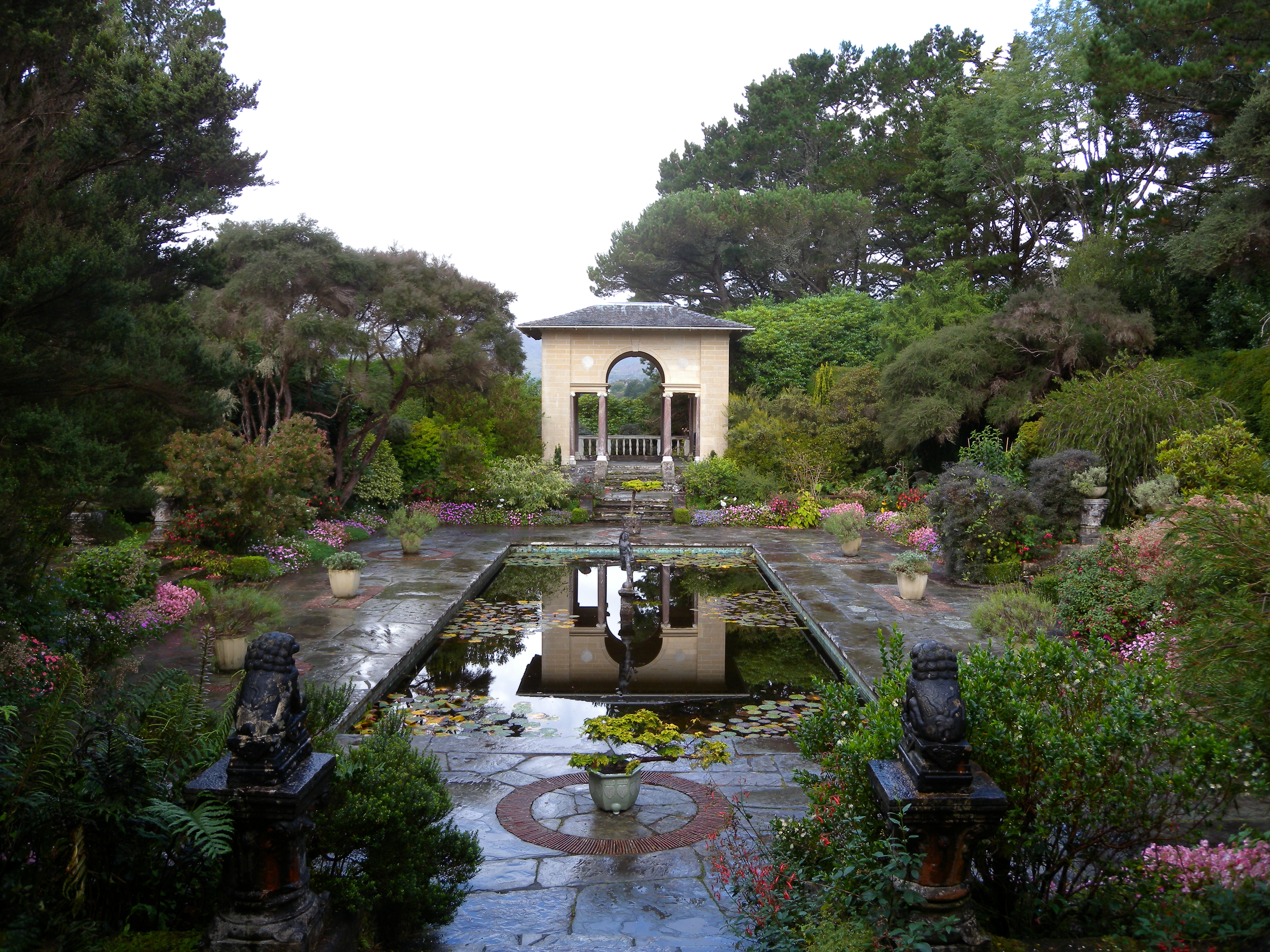 Italian Garden on Garinish Islannd